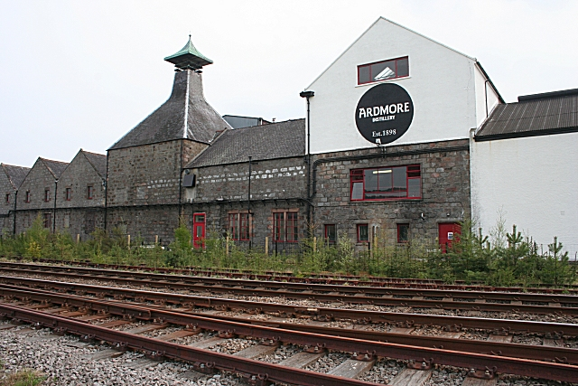 Ardmore Distillery The north side of the distillery, seen from the field on the other side of the railway lines.